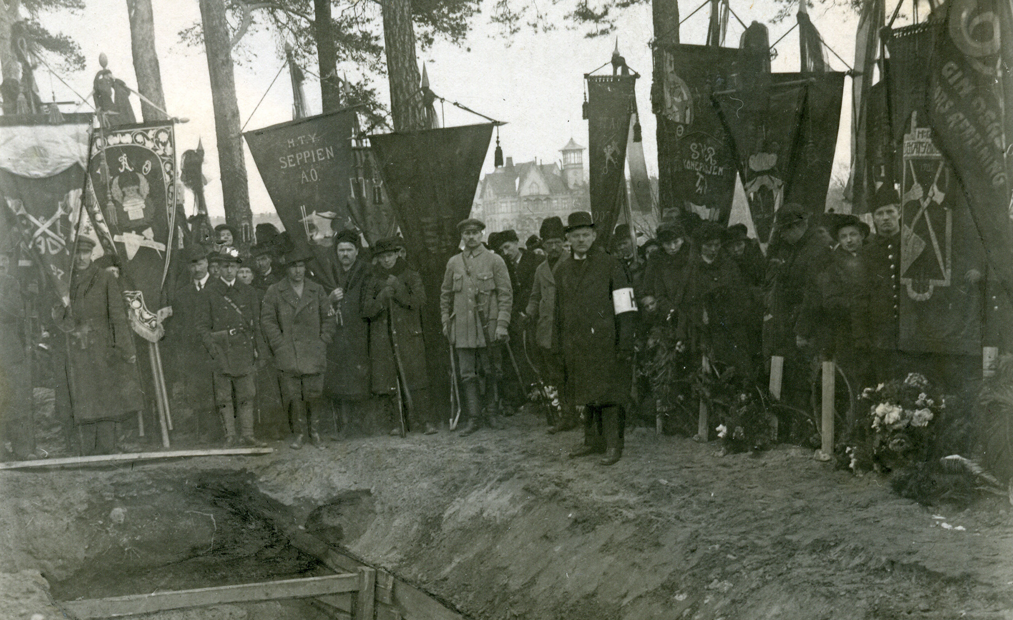 1918 Finnish Civil War: Funeral of fallen Red Guard fighters in Mäntymäki, Helsinki.